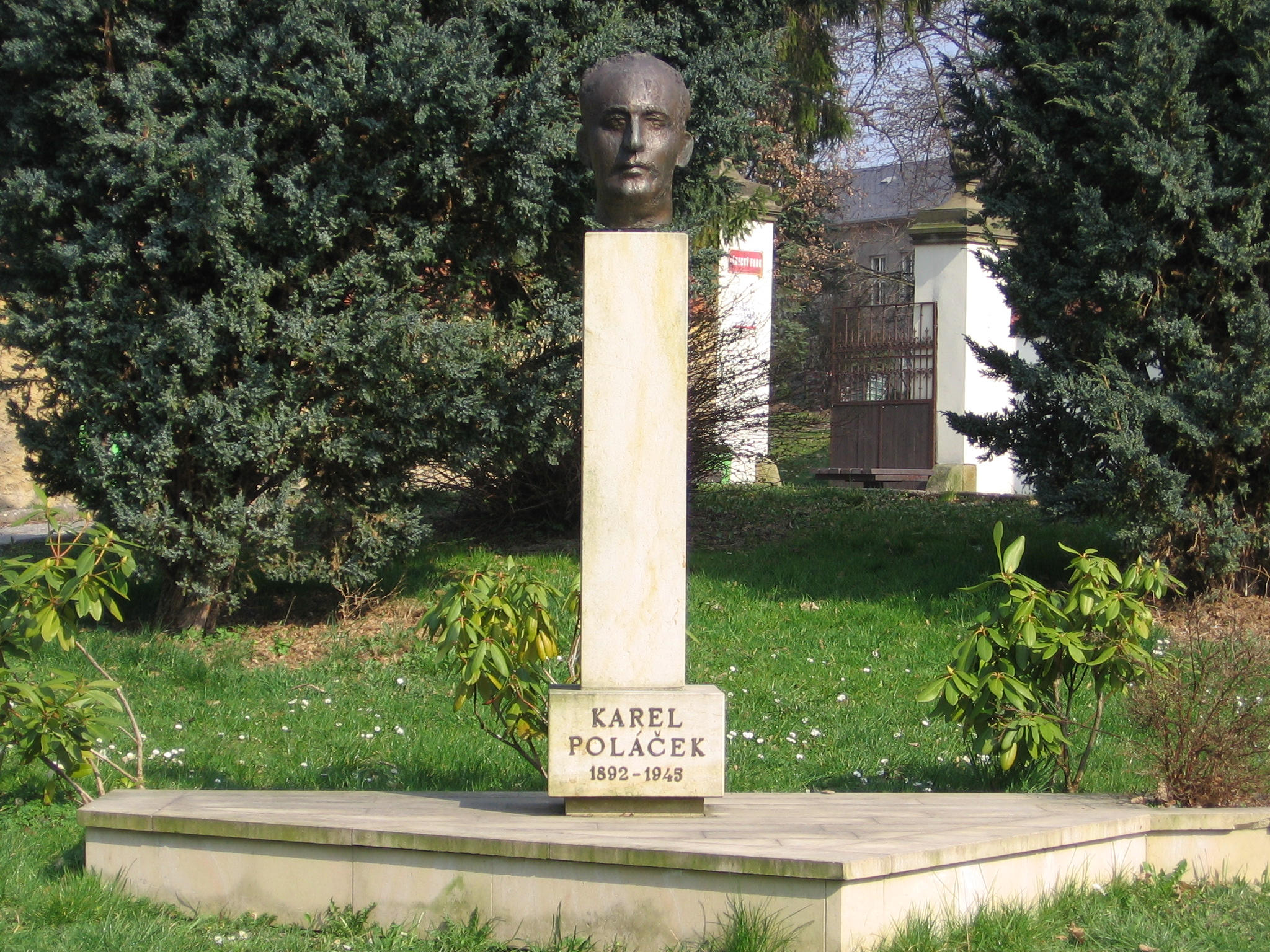 Bust of Karel Poláček in Rychnov nad Kněžnou